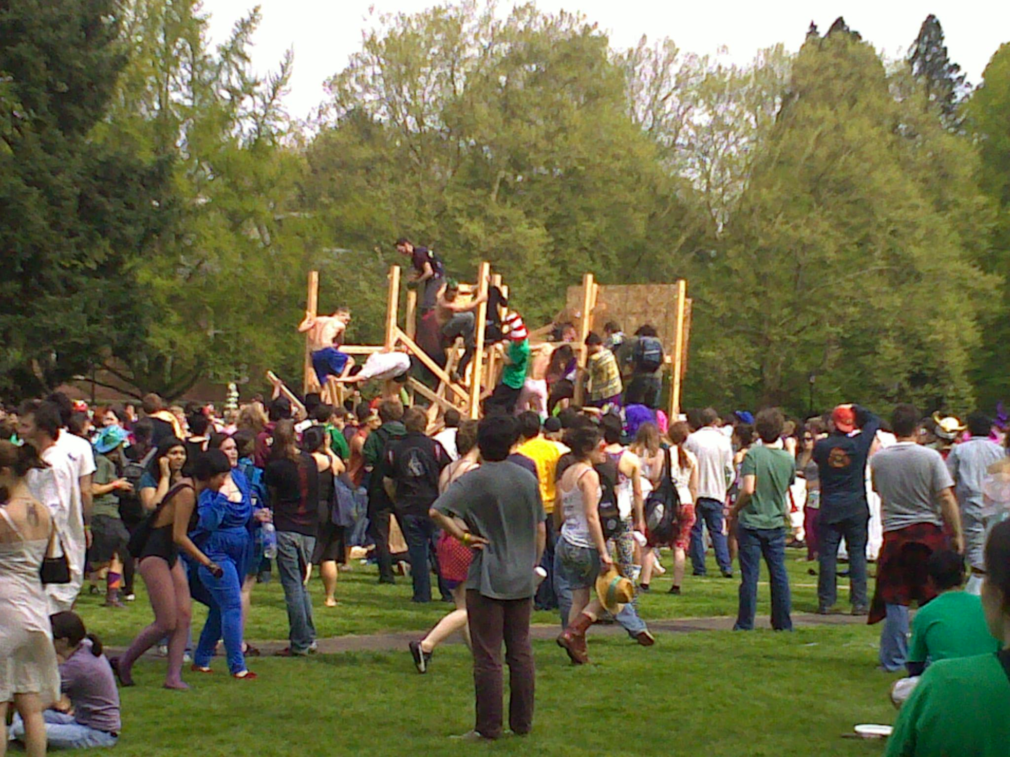 That sucker is gonna fall!